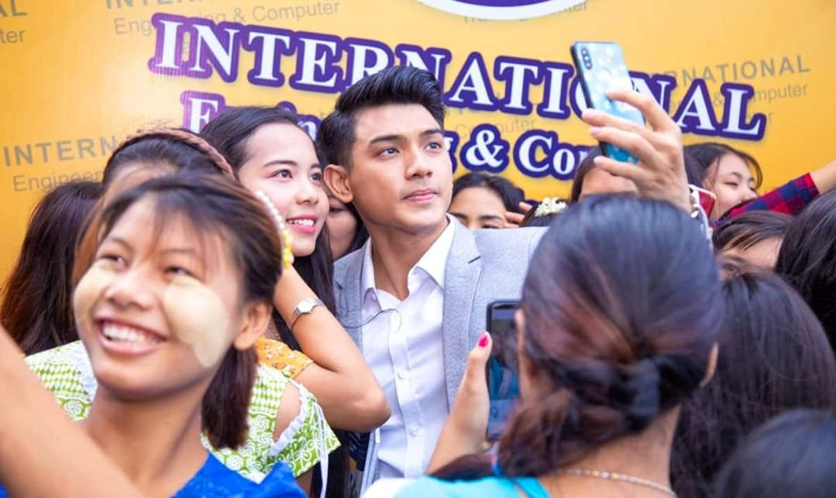 Lin Aung Khit is an actor.